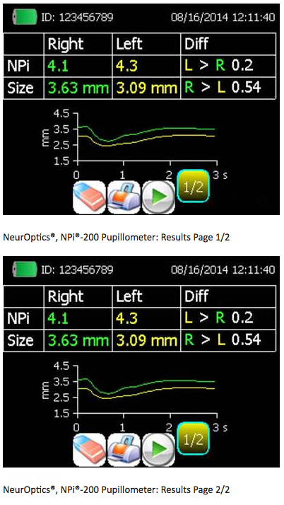 NeurOptics, Inc. Double-Stack Screenshot